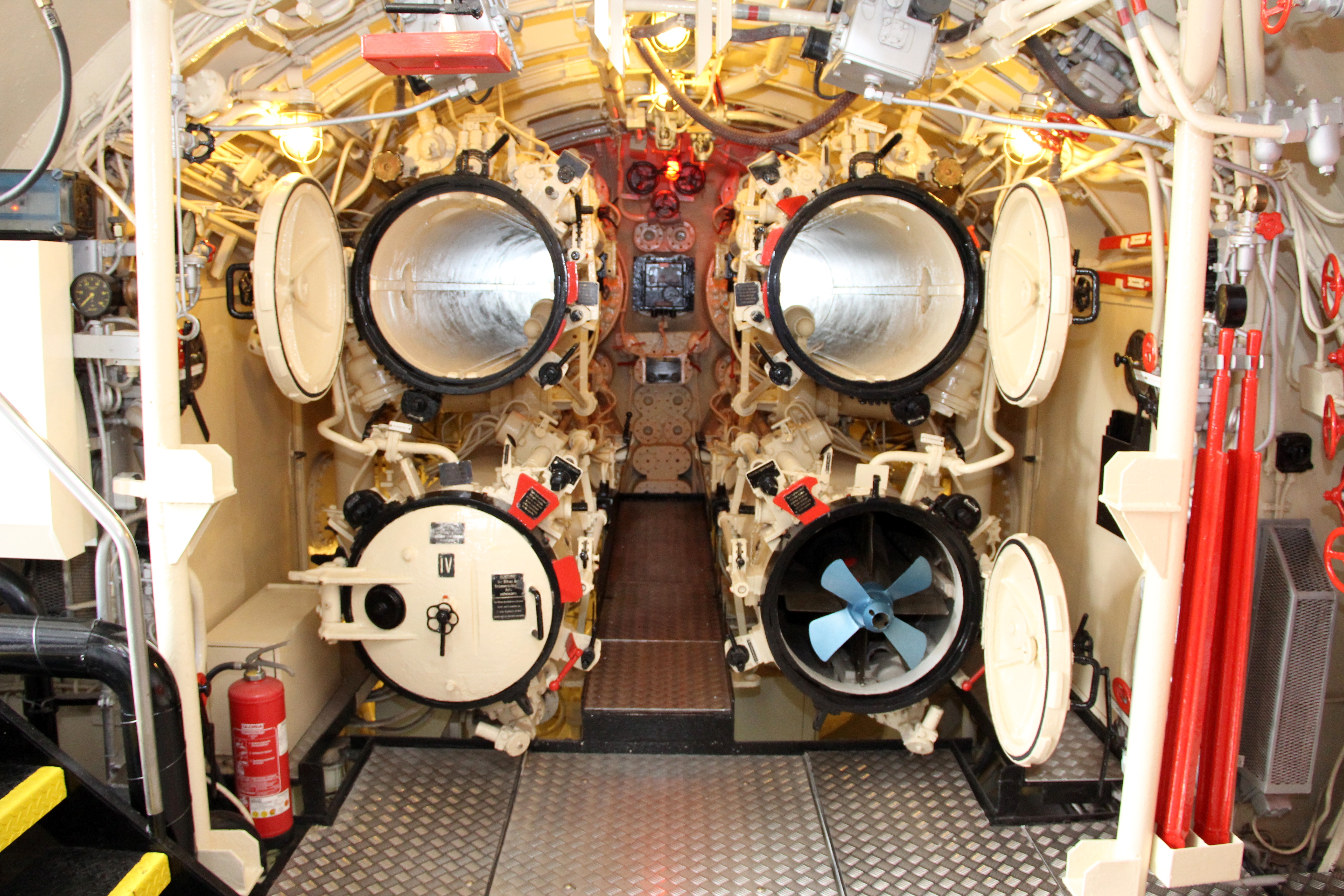 Upper 4 Torpedo Tubes - U-Boot Typ XXI U-2540 ("Wilhelm Bauer")